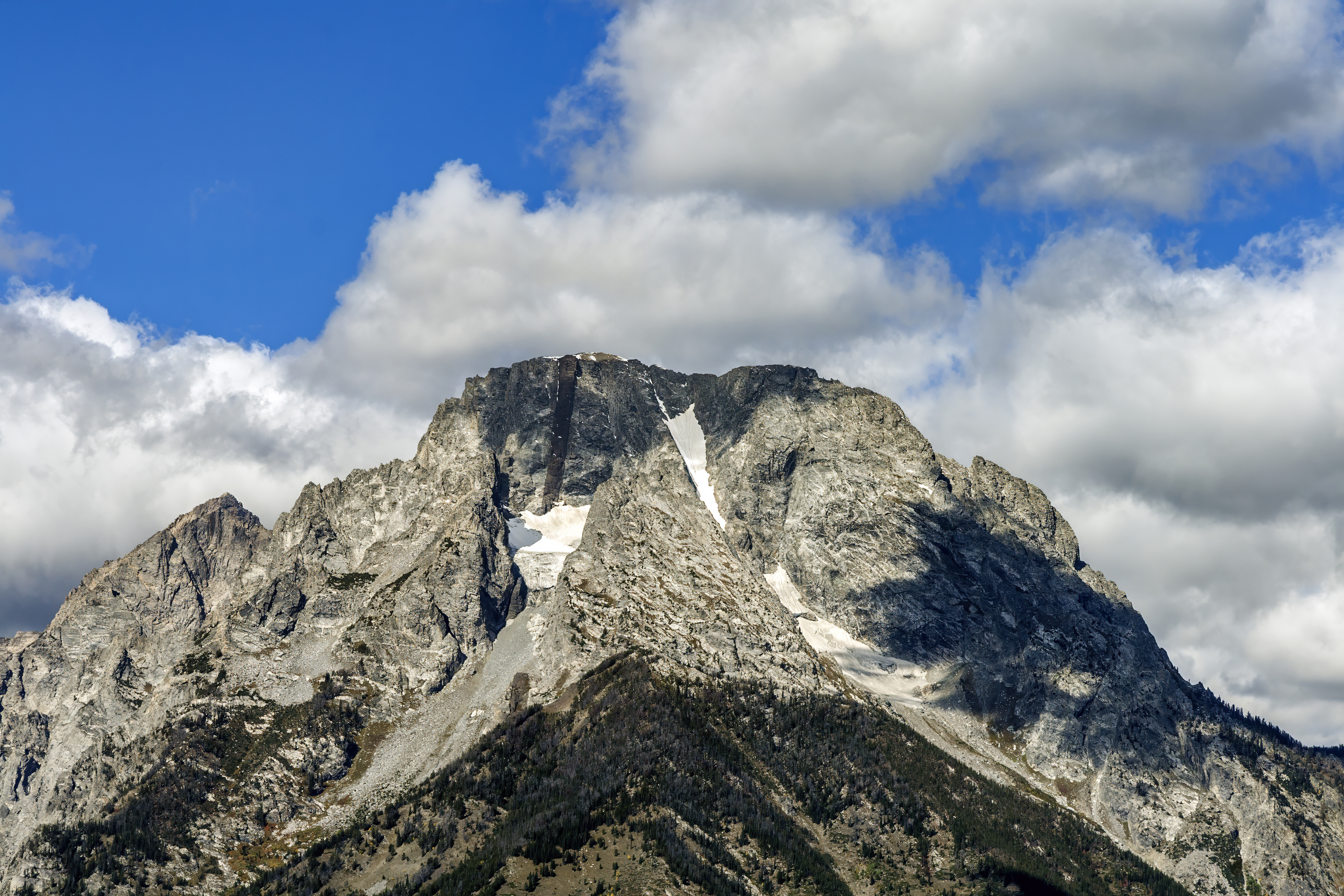 Summit of Mount Moran, Grand Teton National Park, Wyoming, USA, showing the black diabase dike and Skillet Glacier